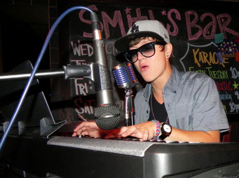 Alex Lambert performs at Smith's Bar in New York City on June 26, 2011.